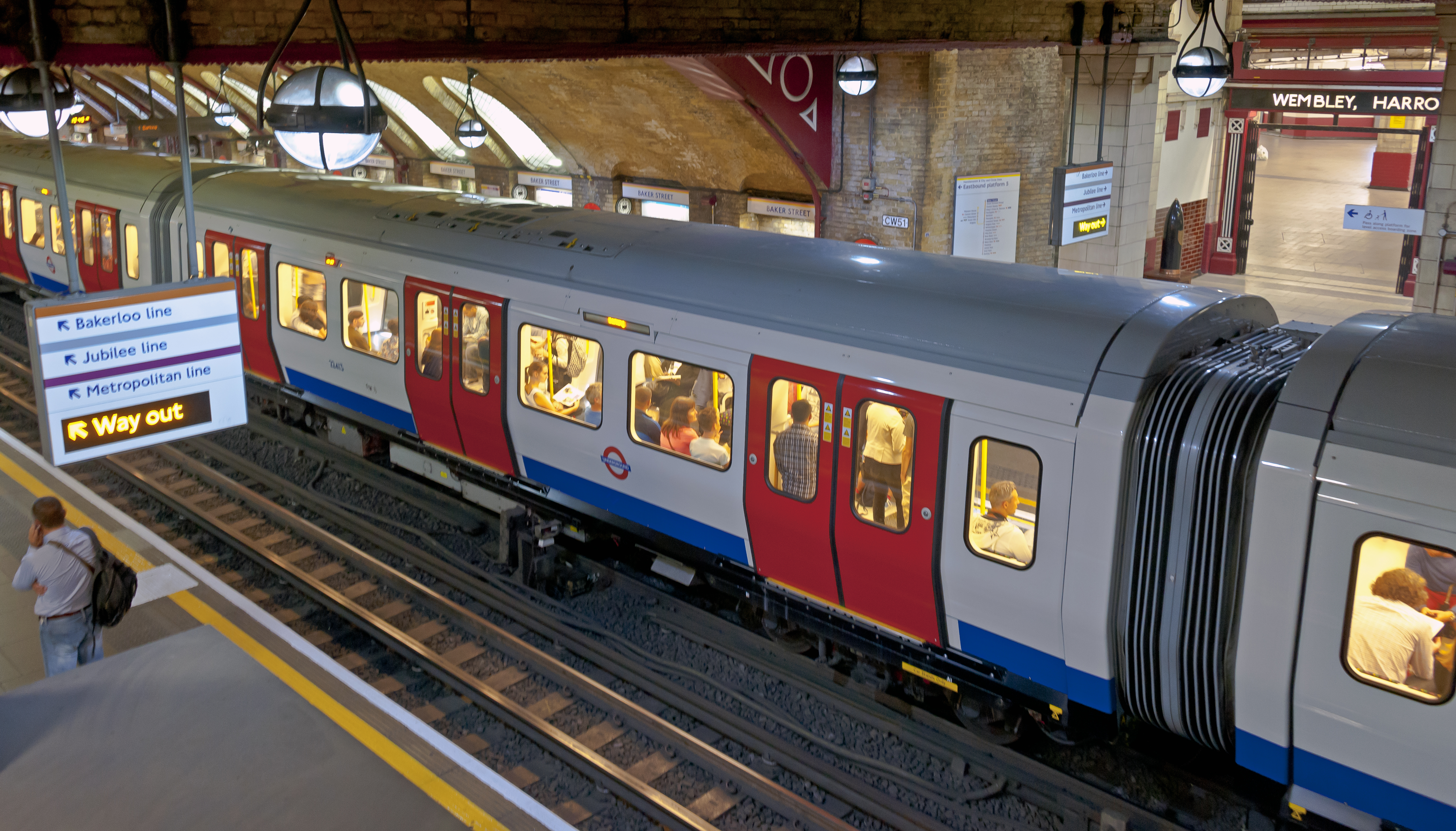 Baker Street tube station, London, seen from above platform level